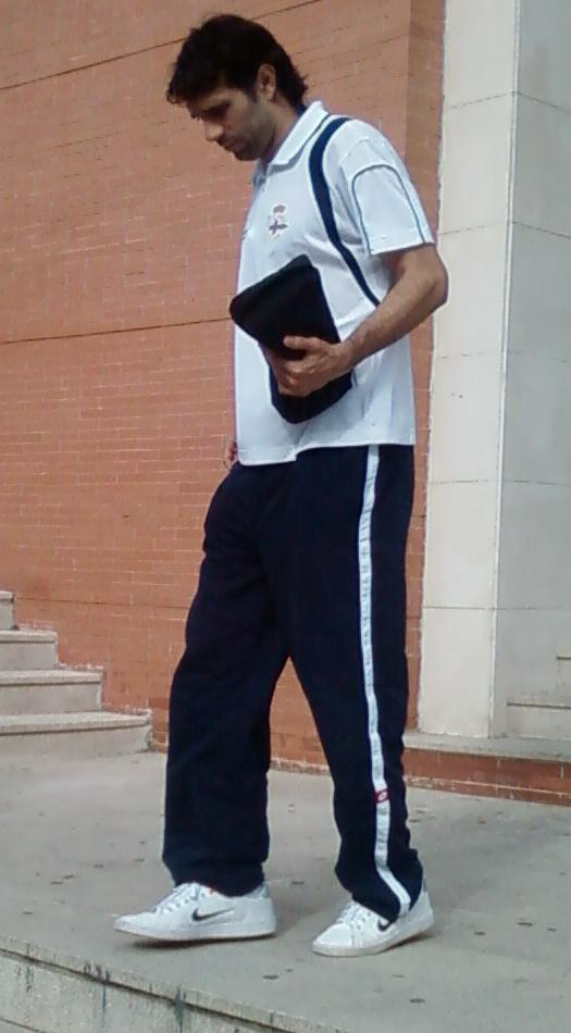 Juan Carlos Valerón, RC Deportivo La Coruña soccer player.